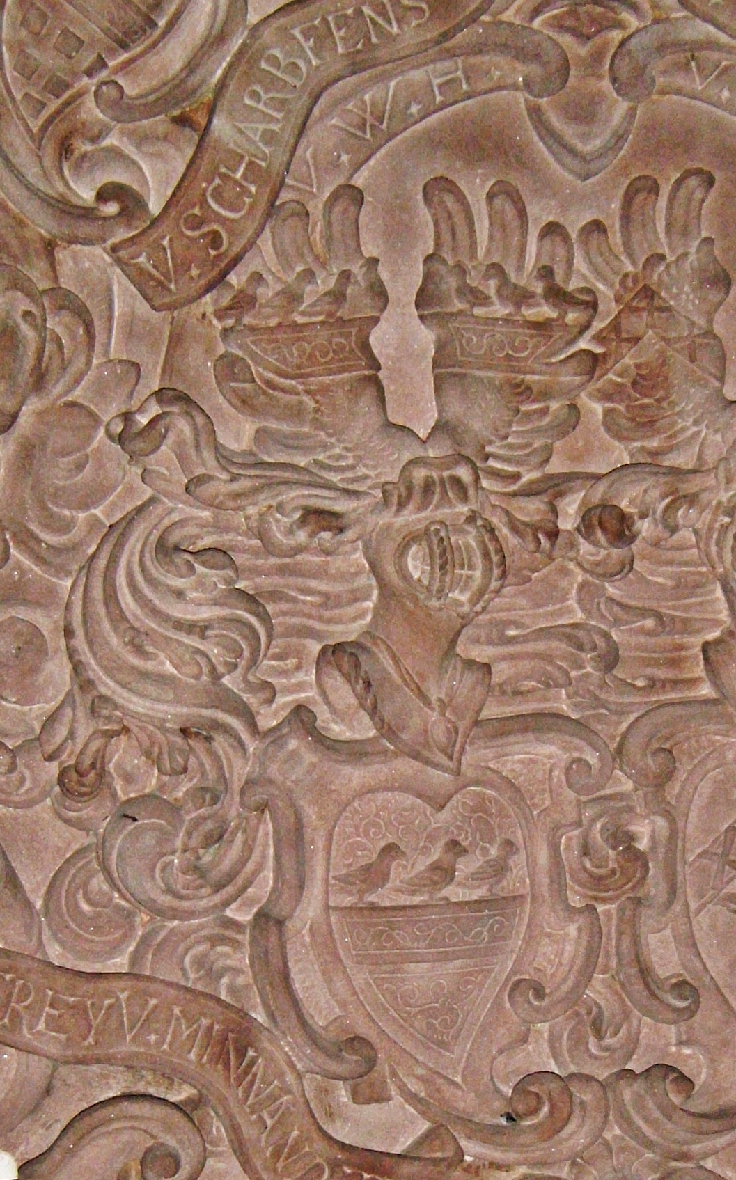 Wappen der Adelsfamilie "von Wachenheim", 1635, Nikolauskirche Neuleiningen